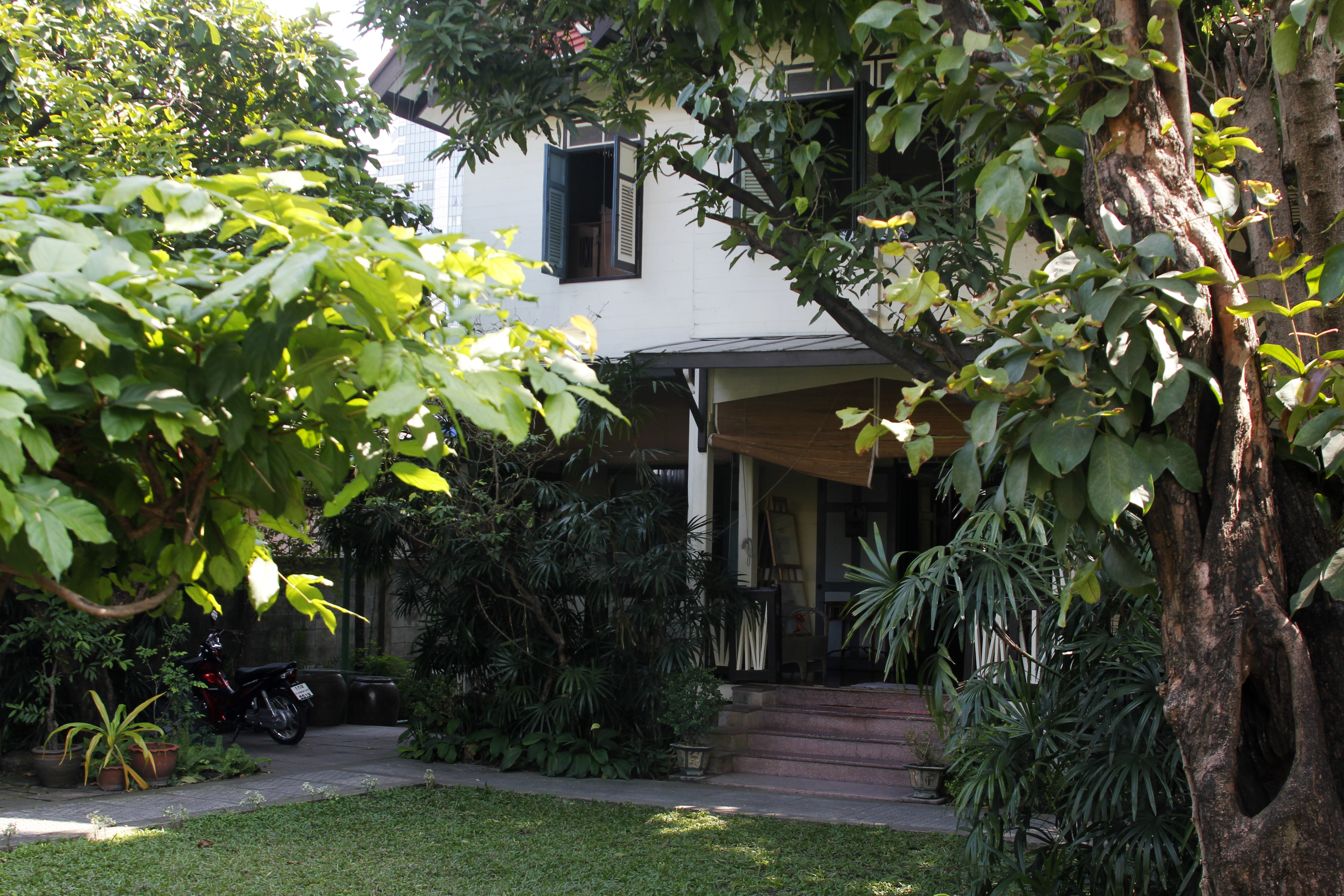 Front view of the wooden main building through the garden